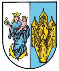 Coat of arms of Rödersheim-Gronau